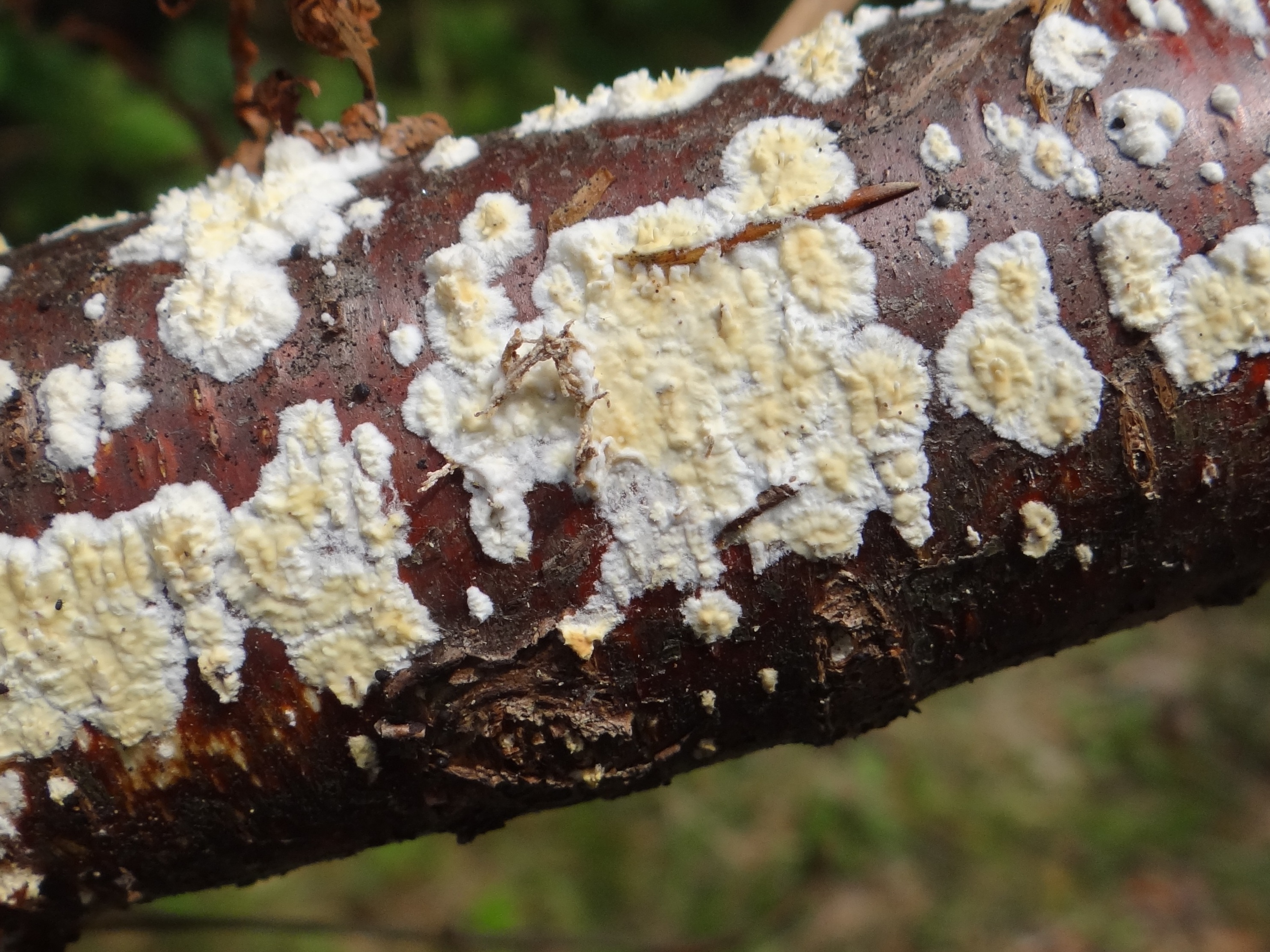 Radulomyces confluens (location: Poland)